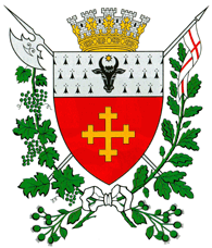 CoA of Lăpușna